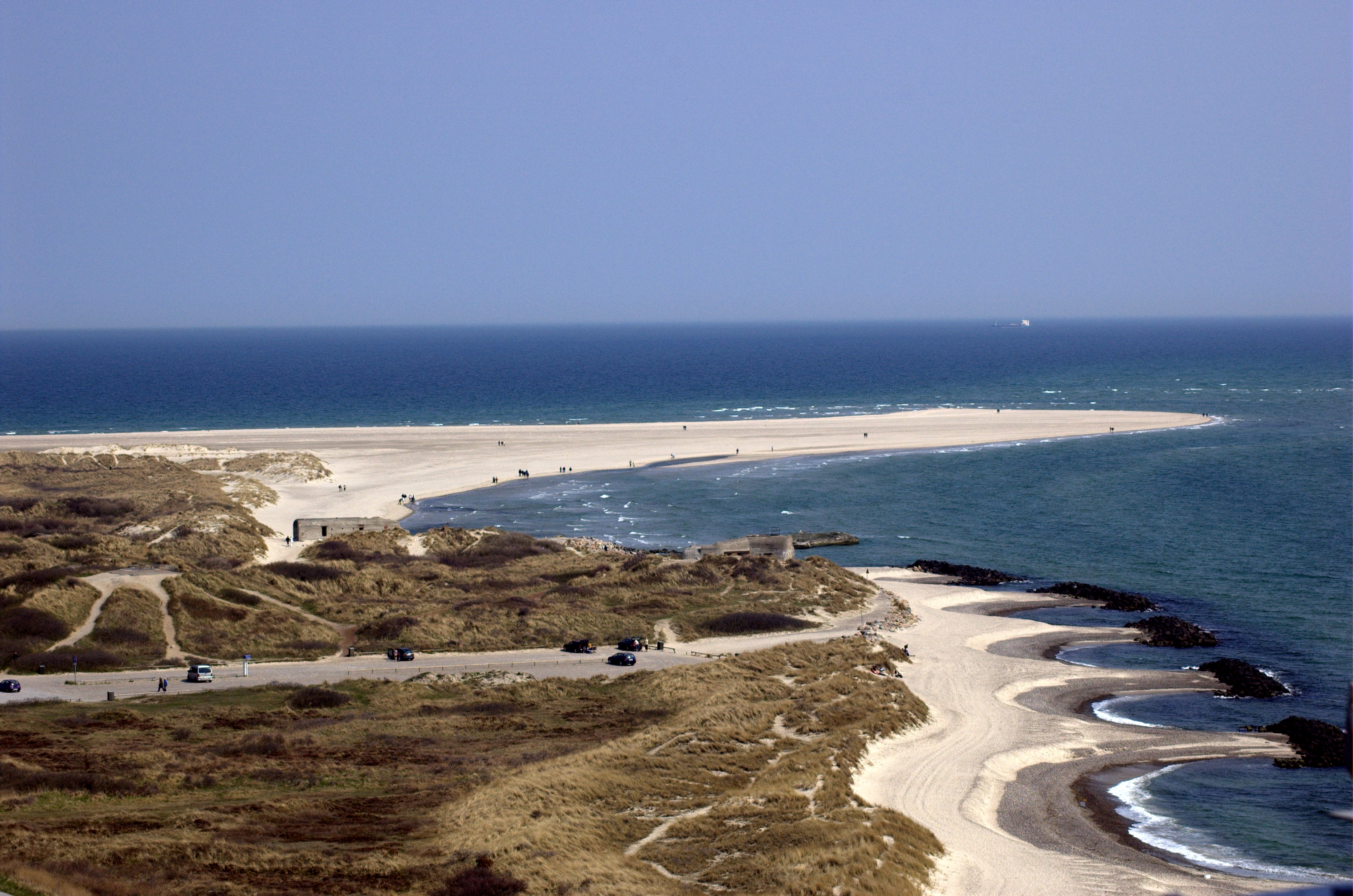 This is the northmost point of Jylland, Denmark. The very northmost projection of land is called Grenen in Danish, and the general area is, just as the nearby town, called Skagen (the area is sometimes also referred to as The Skaw in English). Location: Shot from the top of the Skagen lighthouse located just north of Skagen city. Camera: Nikon D50 using a 70-300mm lens (at 70mm when the photo was taken).